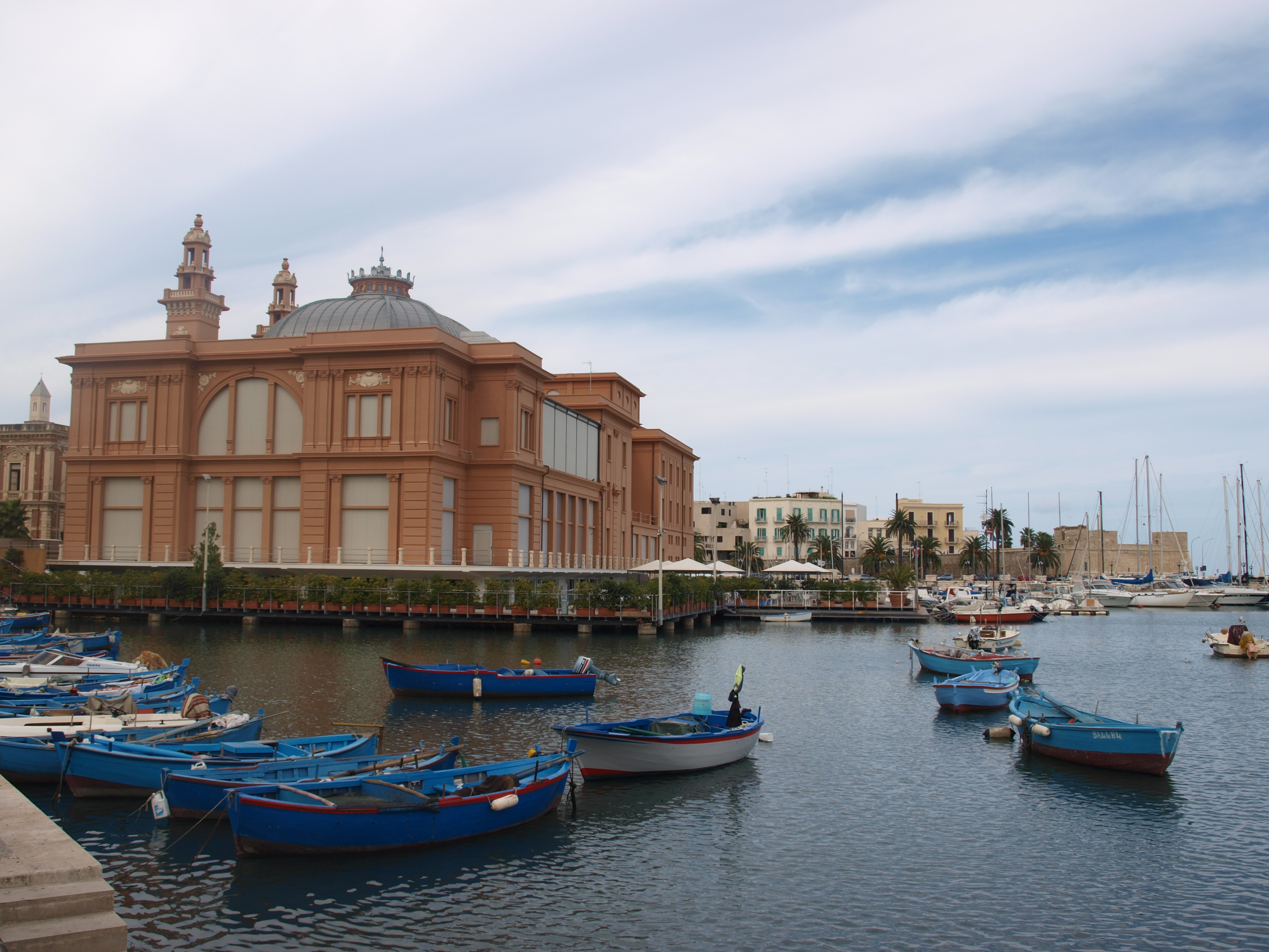 Teatro Margherita and waterfront in the city center of Bari, Puglia, Italy